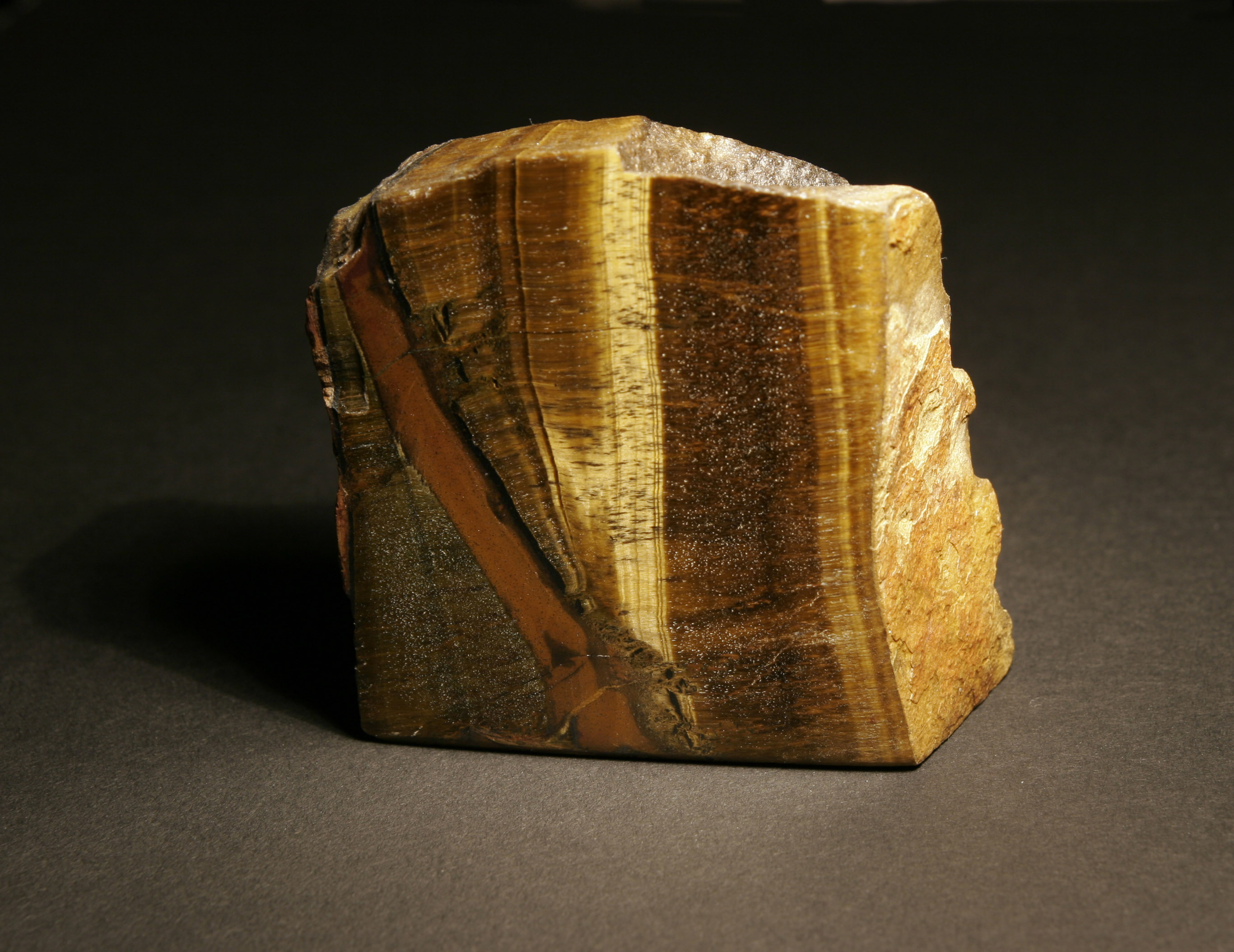 Tigers Eye